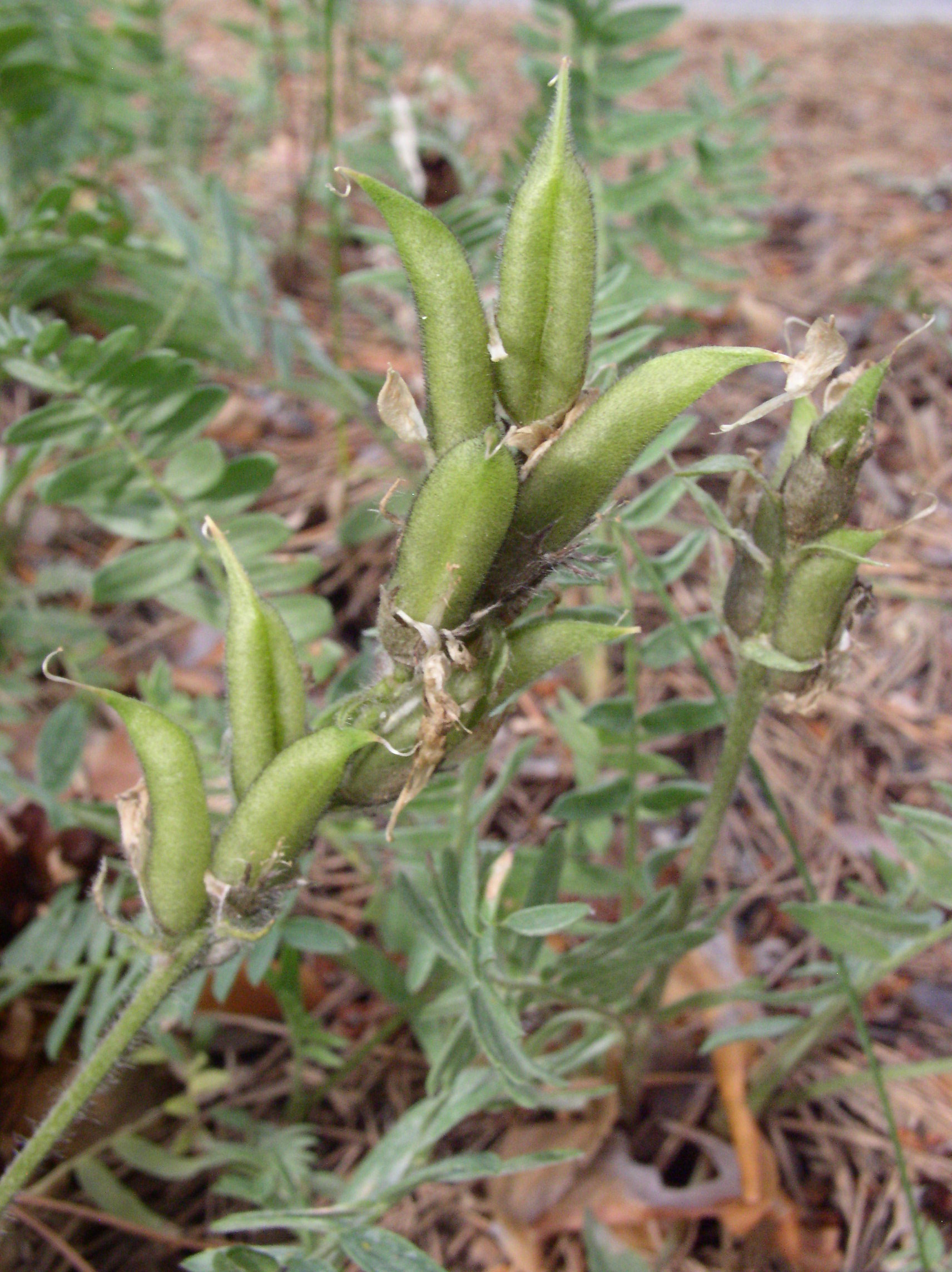 Oxytropis campestris fruits (pods) in Punkaharju, Finland.